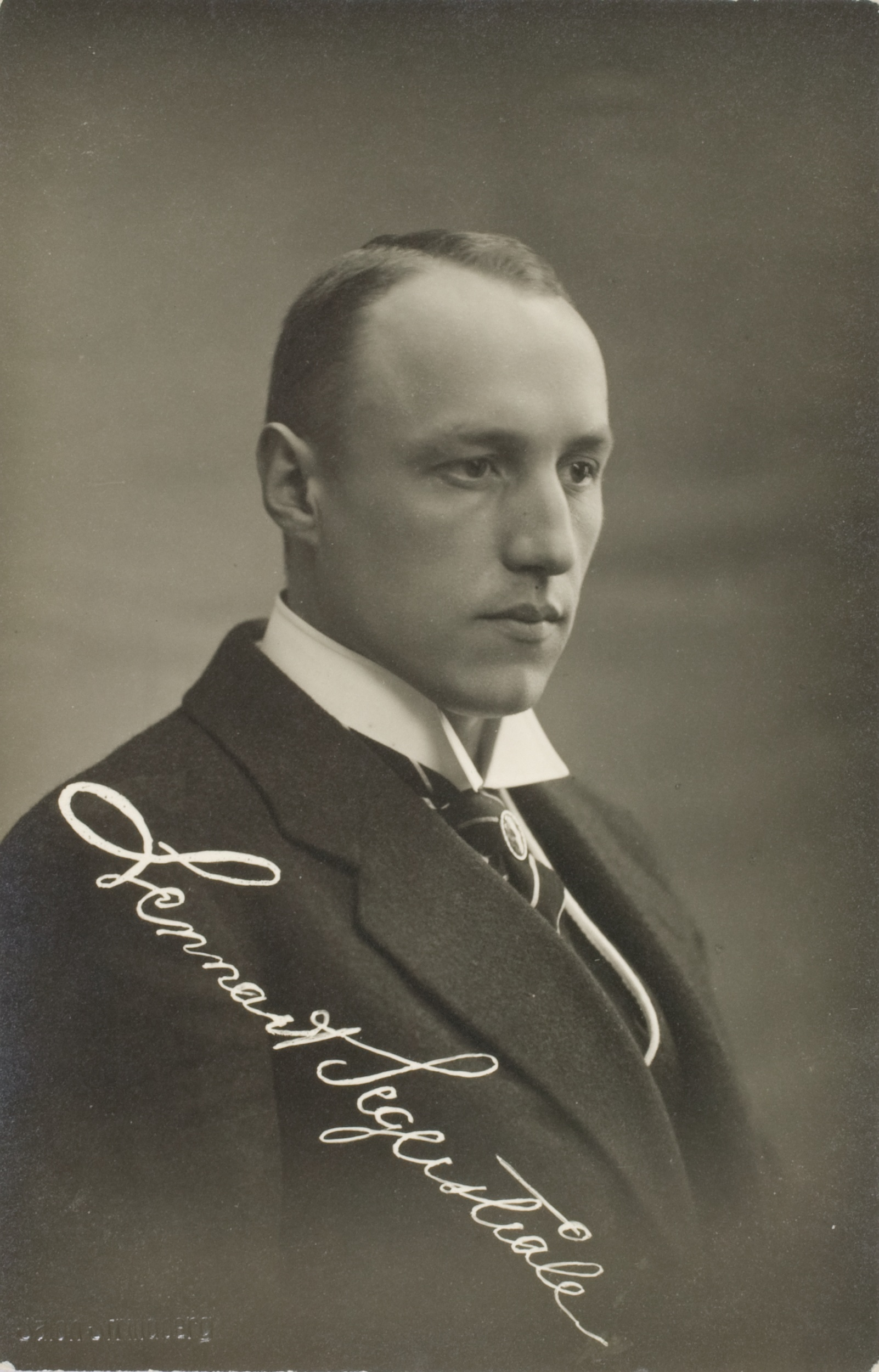 Photograph of the Finnish painter Lennart Segerstråle (1892–1975).